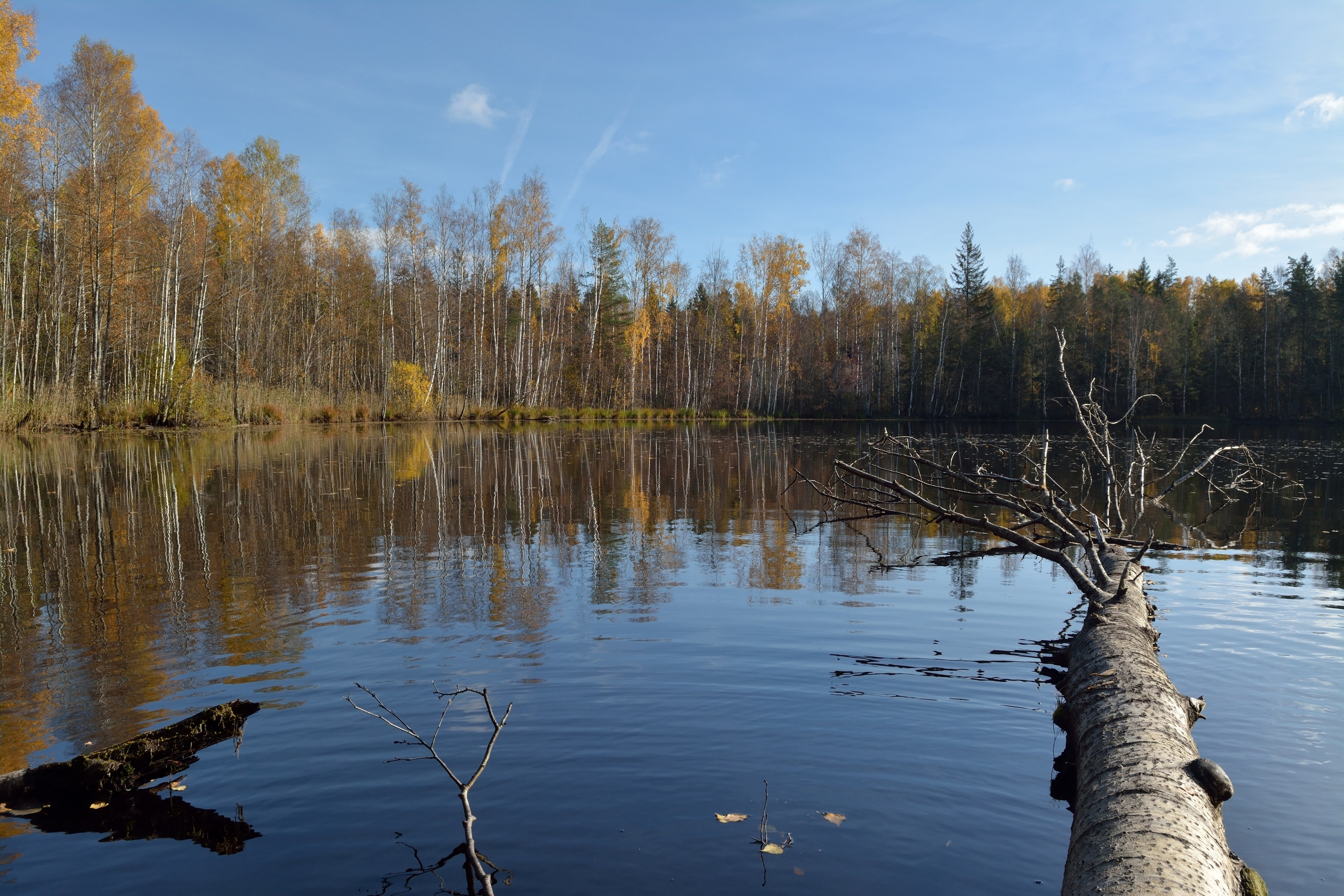 Lake Must-Jaala, Kurtna Landscape Reserve (North-Eastern Estonia). Surface area 1.1 ha.